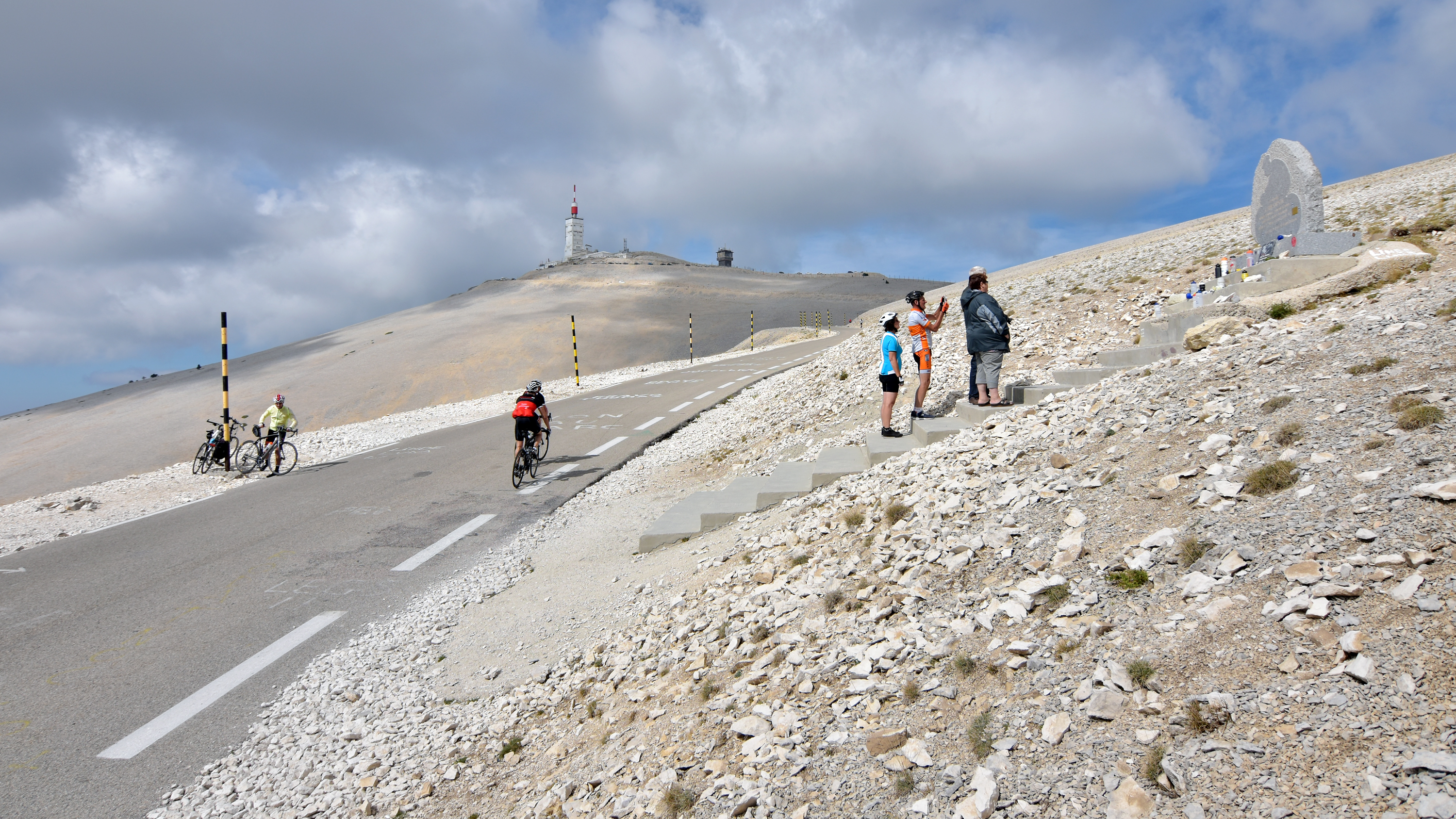 Mont Ventoux, Tom Simpson memorial